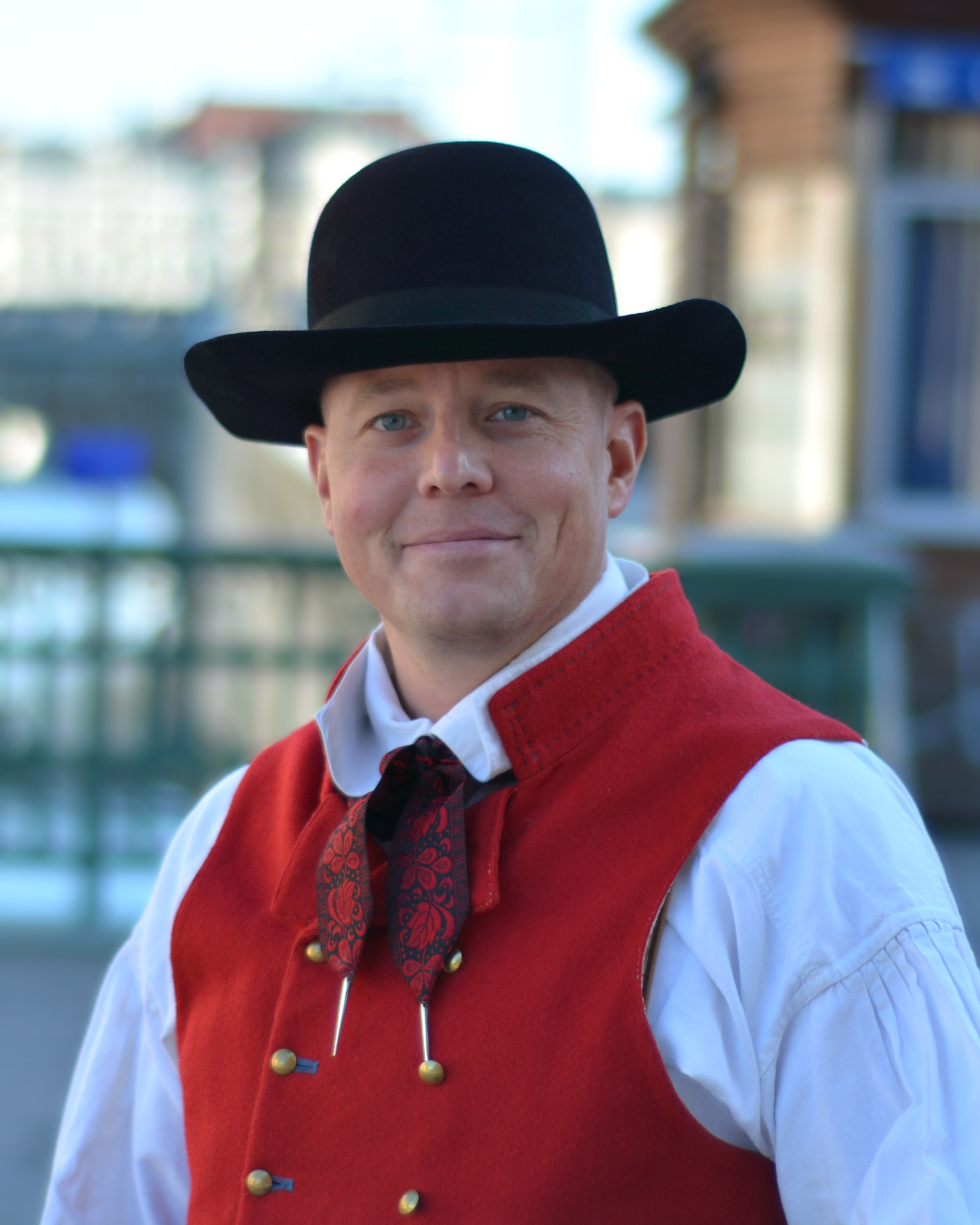 Björn Söder, member of the Riksdag for the Sweden Democratic Party.